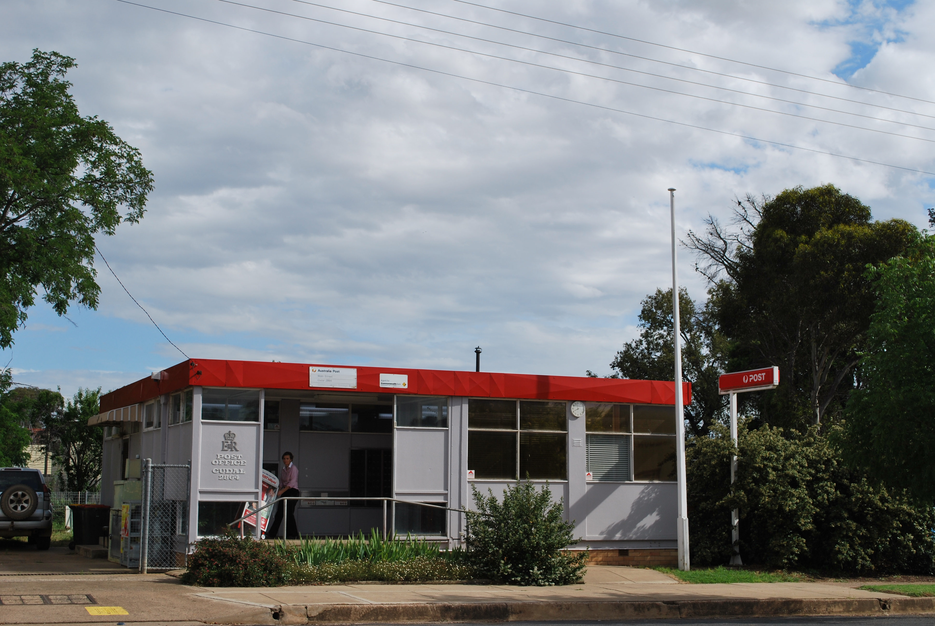 Post office at Cudal, New South Wales